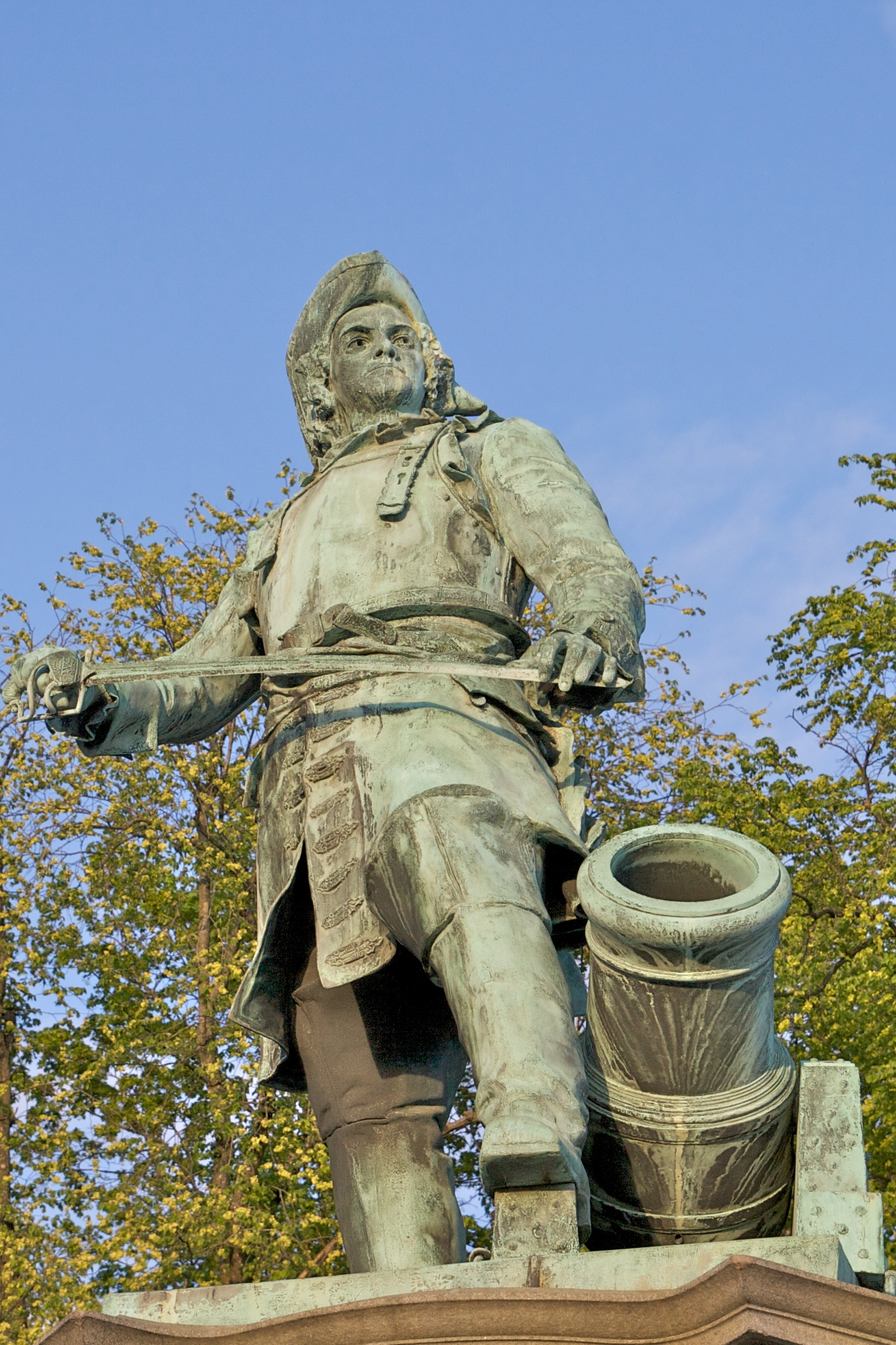 Statue of Peter Wessel Tordenskiold at Rådhusplassen in Oslo. The statue was sculpted by Axel Ender (1853-1920) in the period 1891-1901.